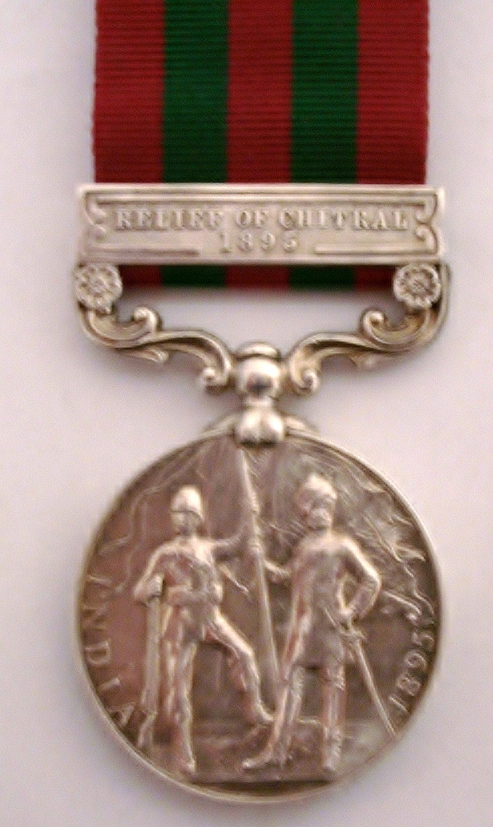 Indian General Service 1895 - Awarded to a pte of the KRRC - Relief of Chitral clasp - I own this medal